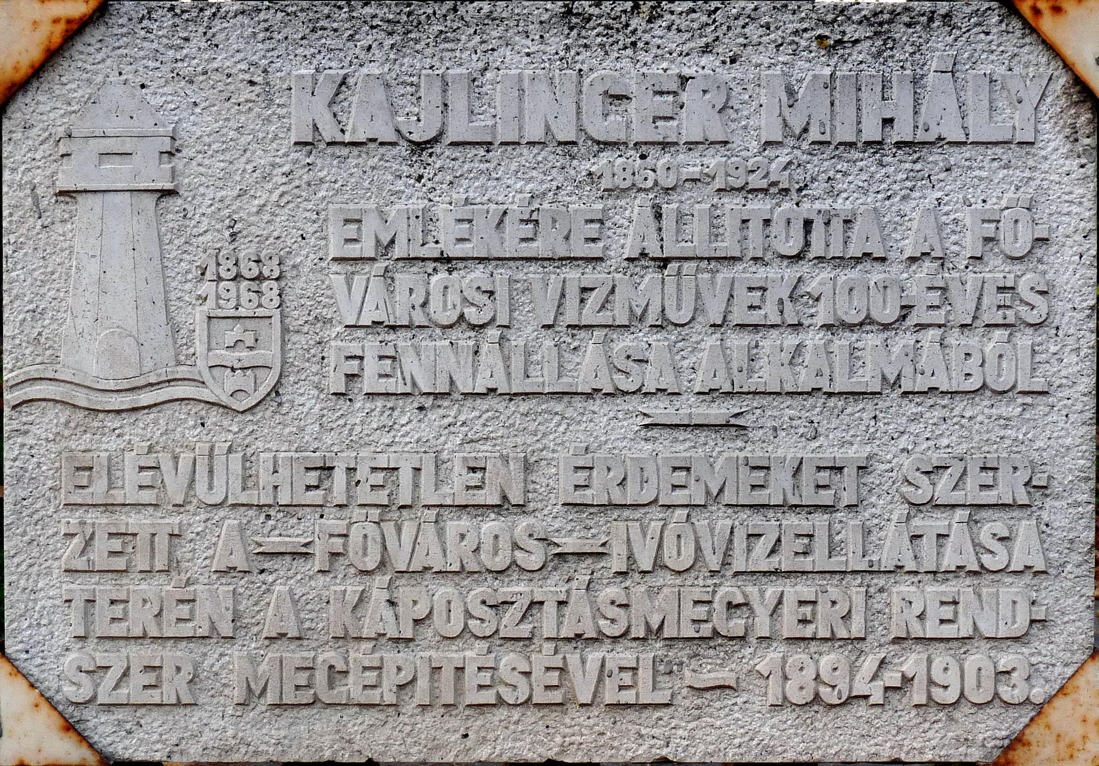 Mihály Kajlinger commemorative plaque in Budapest District IV, Váci Street No 102.